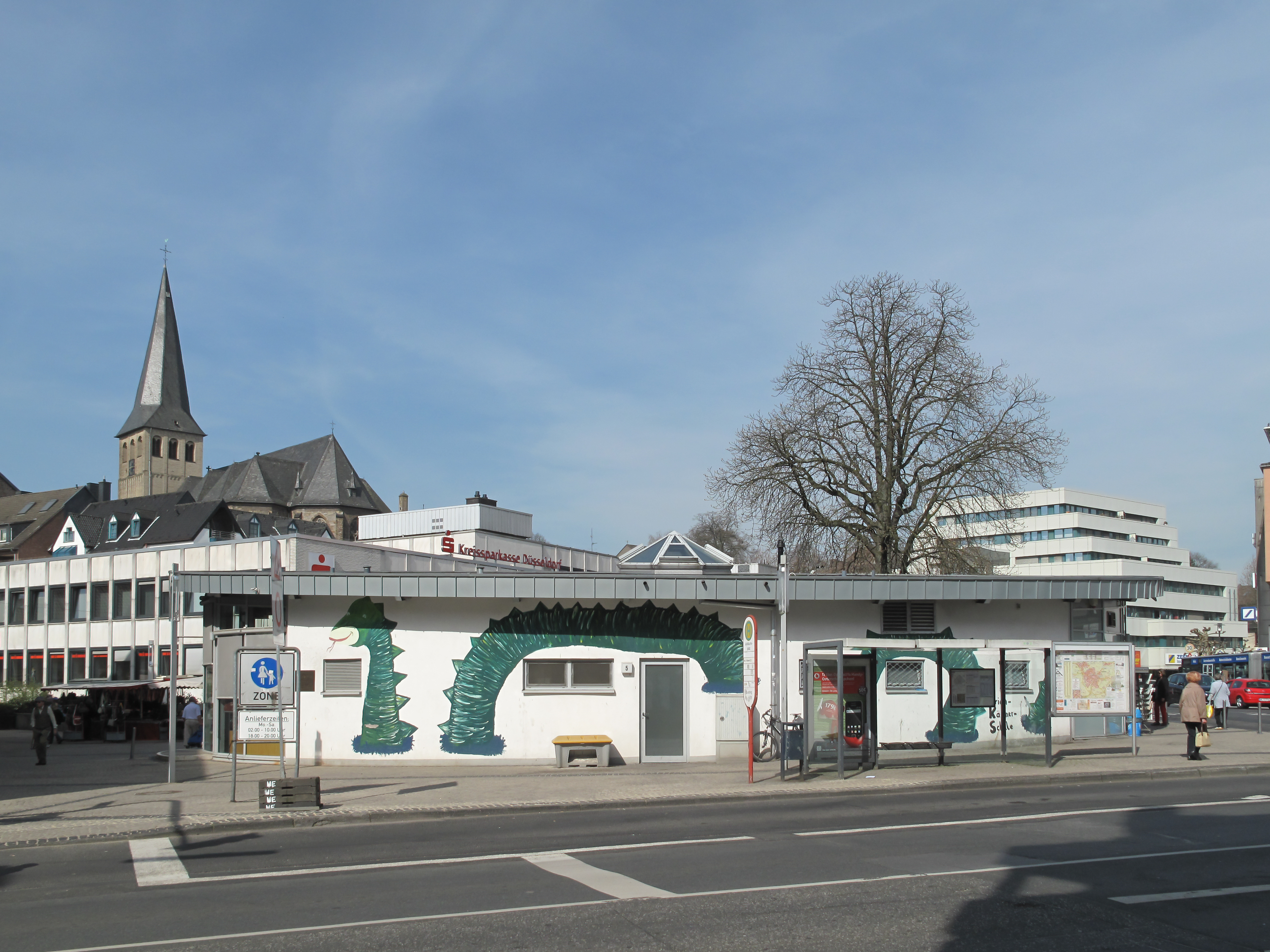 Mettman, a street (Johannes-Flintrop-Straße) with churchtower of St. Lambertus in the background